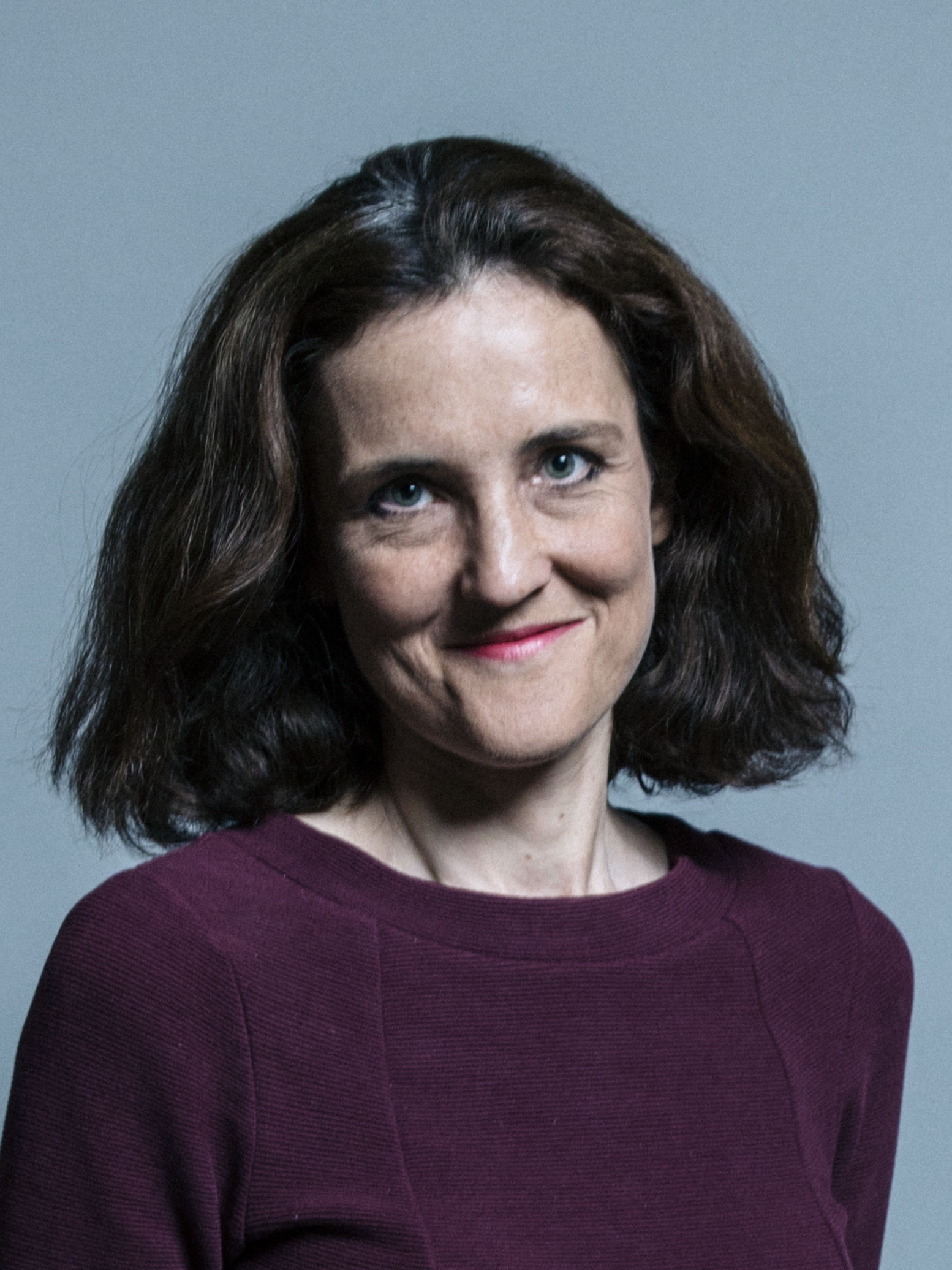 Official portrait of Theresa Villiers